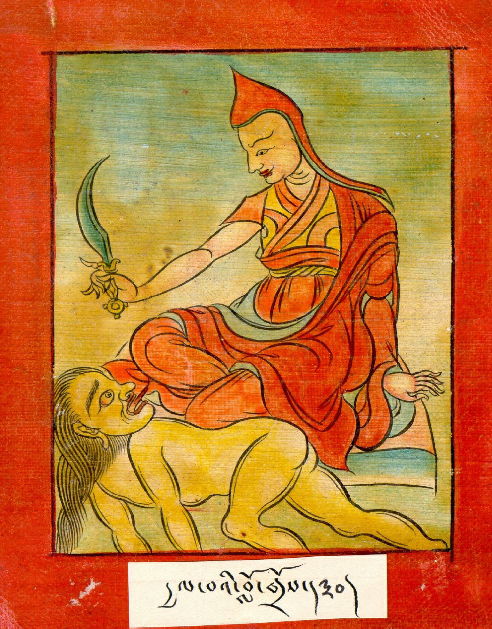 Gyalwai Lodrp, 9th Century Tibetan monk